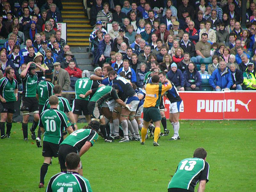 Bath Rugby v Connacht Rugby - 28th October 06 (32) - European Challenge Cup